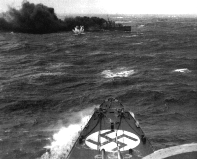 HMS Glowworm deploying a smoke curtain in front of Admiral Hipper